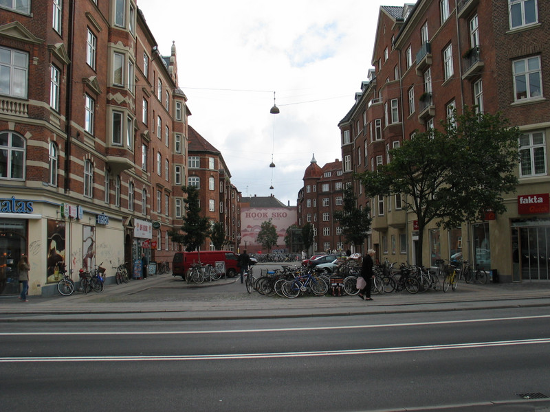 Blekingegade ("Blekinge Street"), Amager, Copenhagen A serie of robberies were carried out by a gang in the 1980's in order to raise money to PFLP. During a robbery of a post office a police officer was killed. The gang was later located in an apartment in Blekingegade - naming the case in the medias Blekingegade-sagen ("The Blekinge Street case").